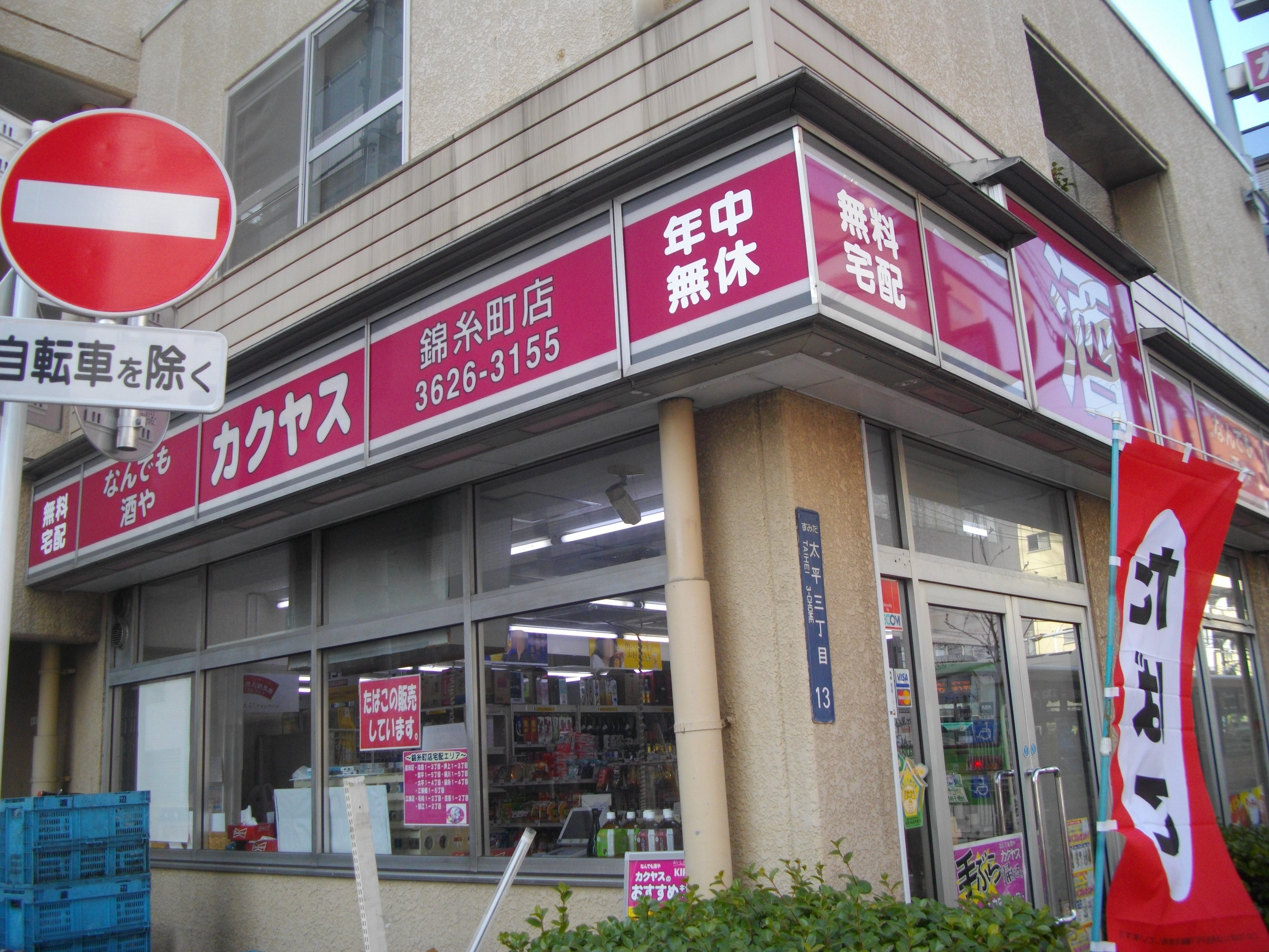 A photo of liquor shopKakuyasu(A liquor chain store in Tokyo.) Kinshicho branch shop.Taihei,Sumida-ku,Tokyo,Japan.